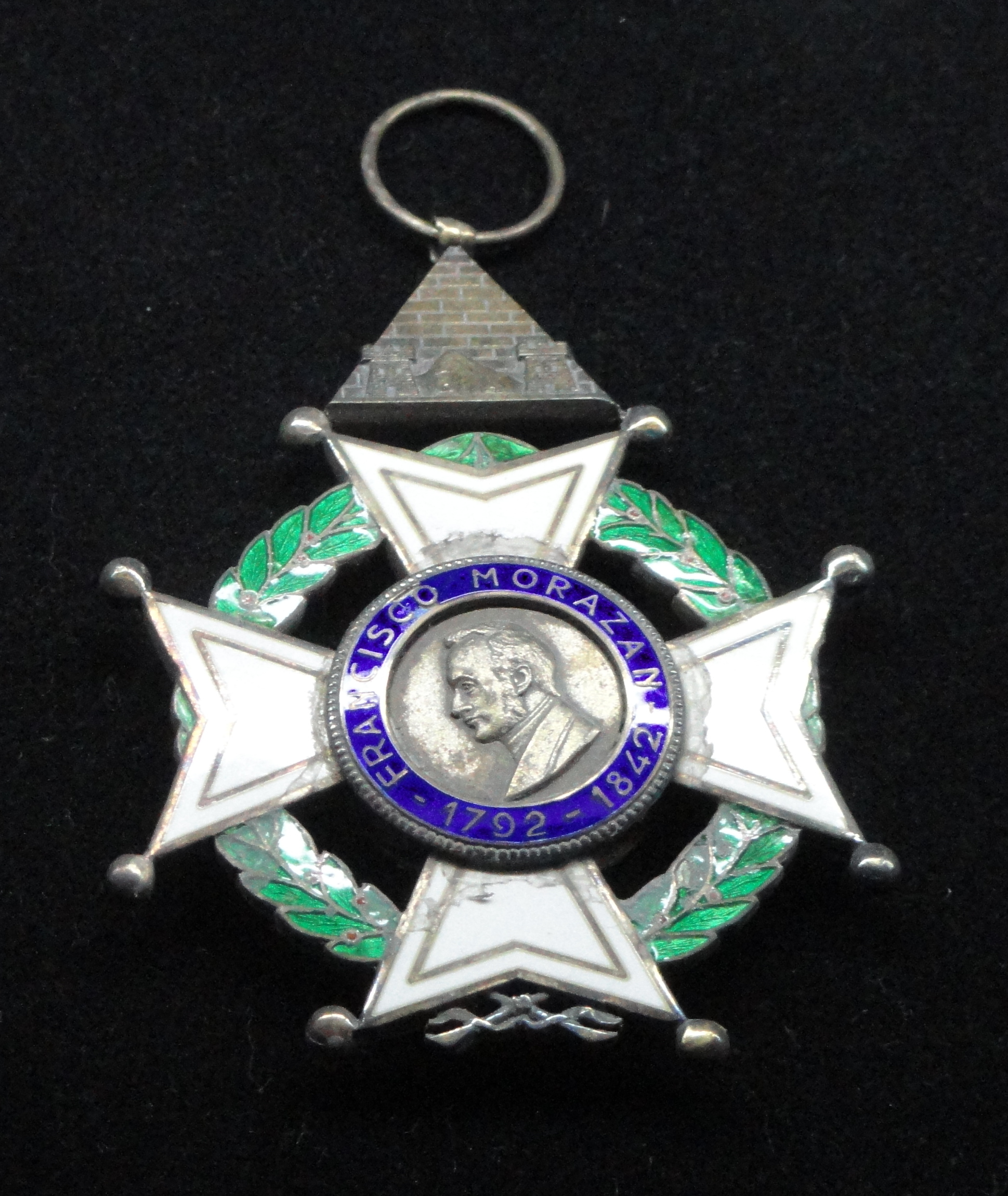 IExhibit in the Memorial JK, Brasília, Brazil.